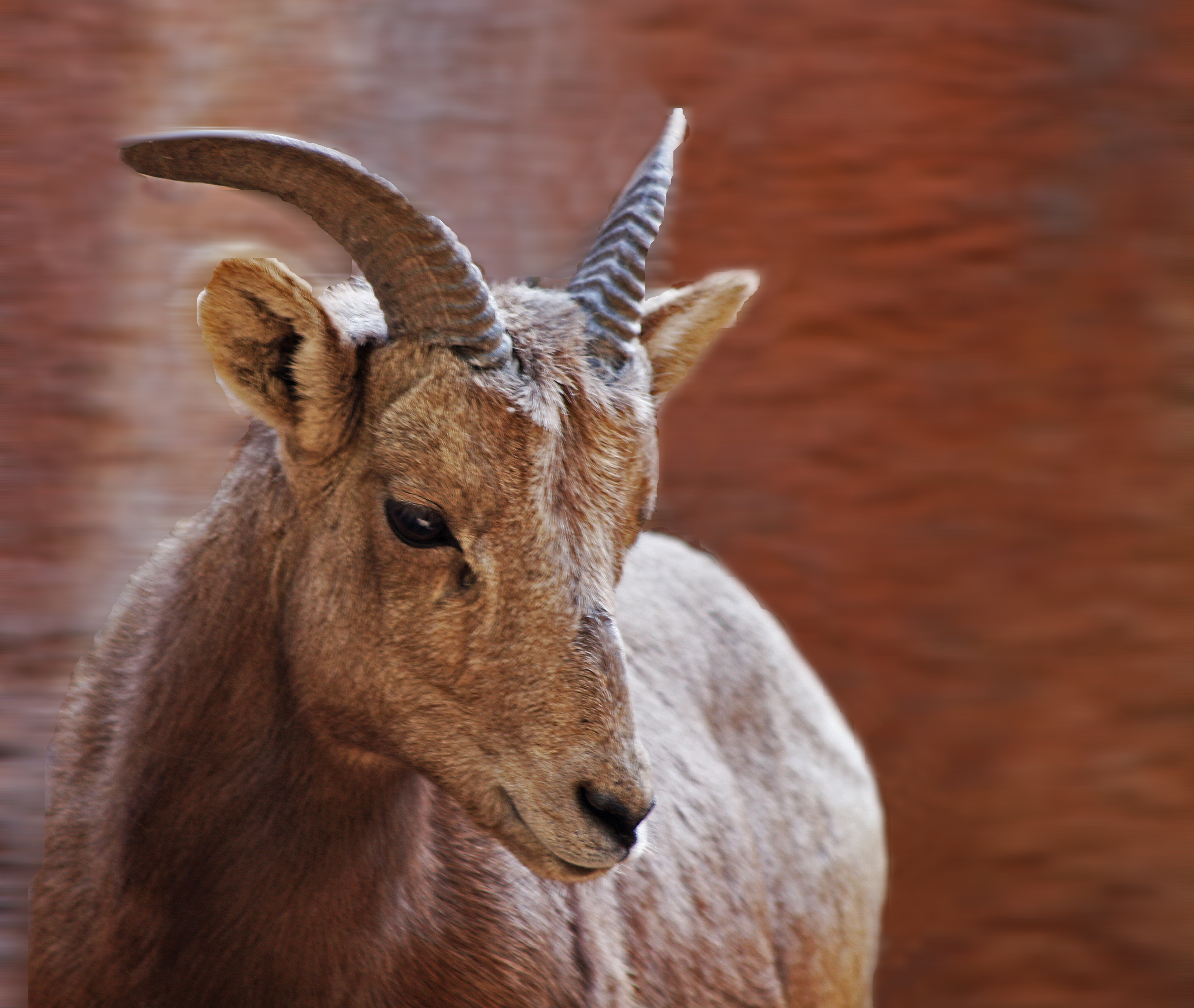 Female Bighorn Sheep